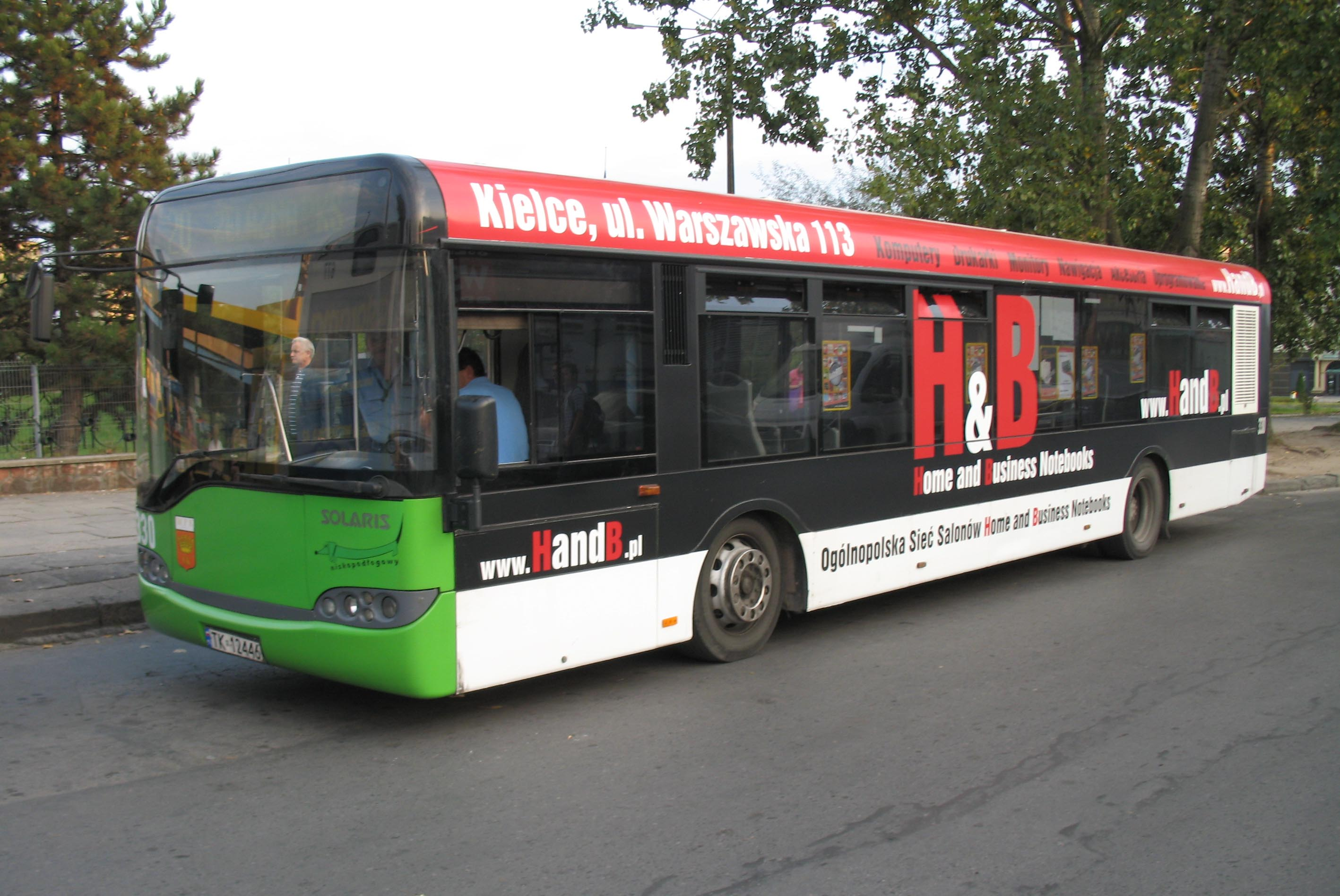 Solaris Urbino 12 Mk1 bus (#330) in Kielce, Poland. Year built 2000. MPK Kielce company.